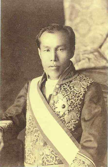 Marquess Ōkuma Shigenobu (大隈 重信?, 11 March 1838 – 10 January 1922); was a statesman in the Empire of Japan and the 8th (30 June 1898 – 8 November 1898) and 17th (16 April 1914 – 9 October 1916) Prime Minister of Japan. Ōkuma was also an early advocate of Western science and culture in Japan, and founder of Waseda University.